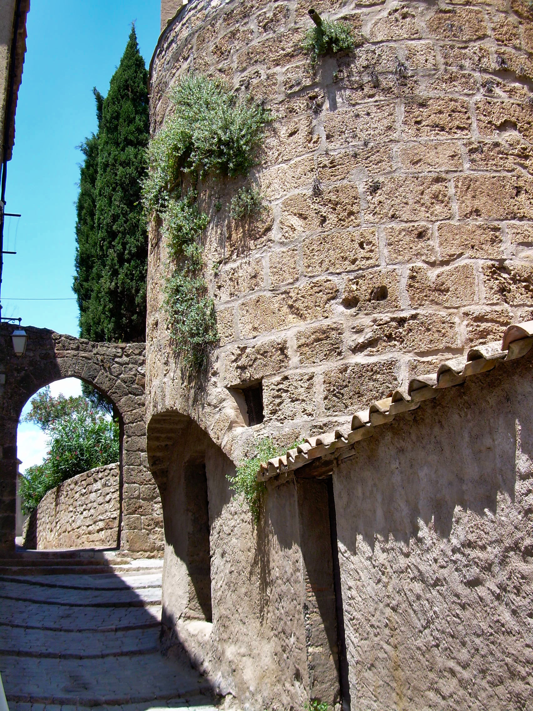 Rampart between the street G. Olivier and the street du Murier, Les Arcs sur Argens, France